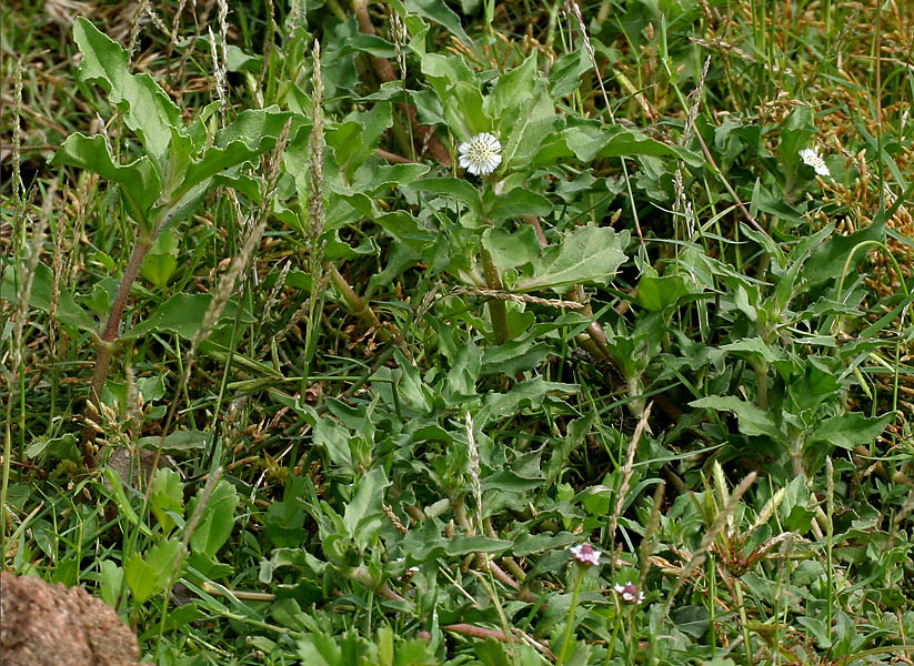 Eclipta alba (syn. Eclipta prostrata, Eclipta erecta, Verbesina alba, Verbesina prostrata) - Keshut, Maka, False Daisy, Marsh Daisy, yerba de tago, bhangra, Trailing eclipta • Hindi: भ्रिंगराज Bhringaraj, केशराज Kesharaj • Manipuri: Uchi-sumbal • Tamil: கரிசிலாங்கண்ணி Karisilanganni, Kavanthakara • Malayalam: Kannunni • Telugu: Galagara • Kannada: Ajagara • Oriya: Kesarda • Sanskrit: भ्रिंगराज Bhringaraj - at Pocharam lake, Andhra Pradesh, India.